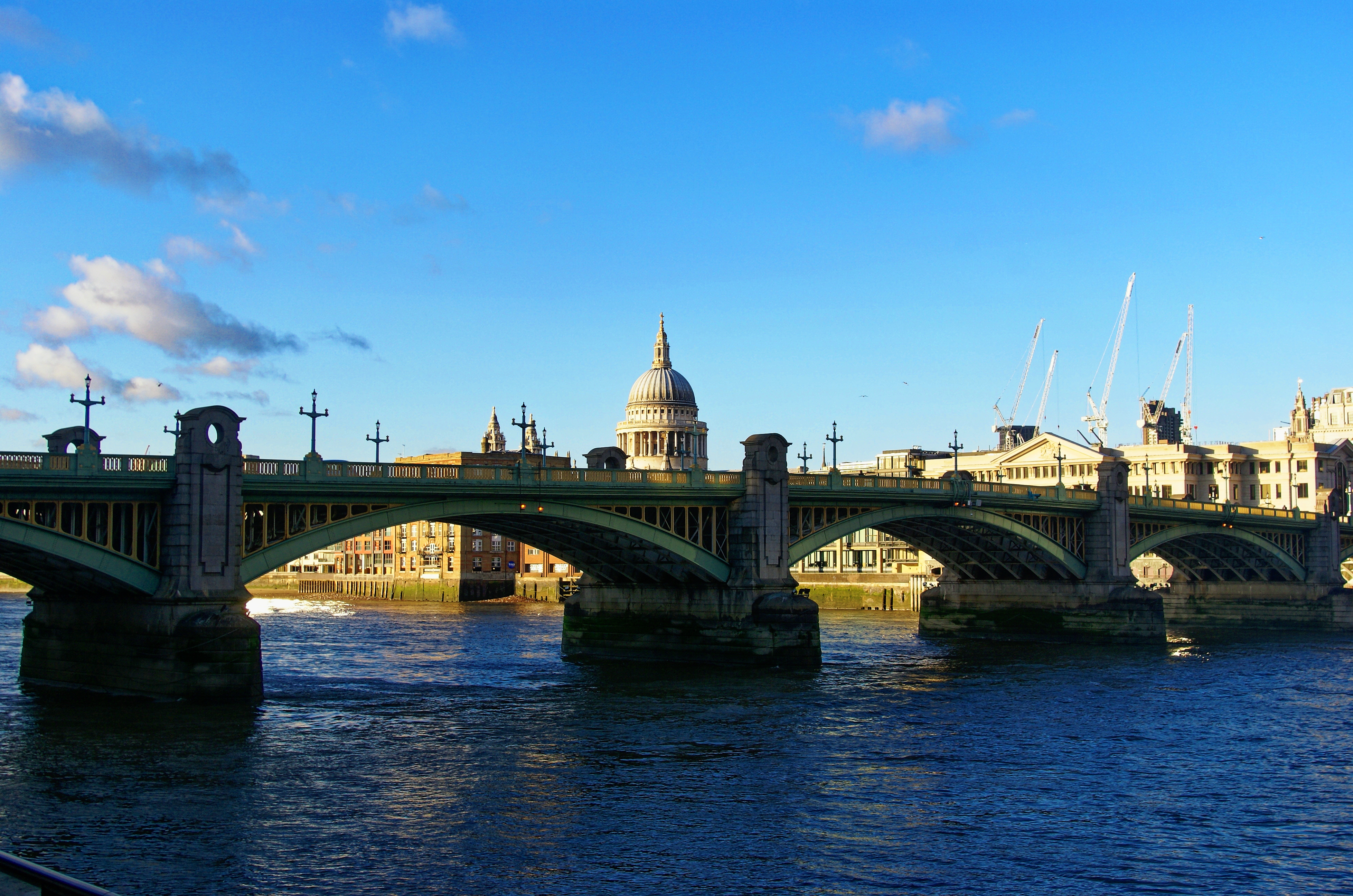 London - Southwark Bridge - St. Paul Cathedral